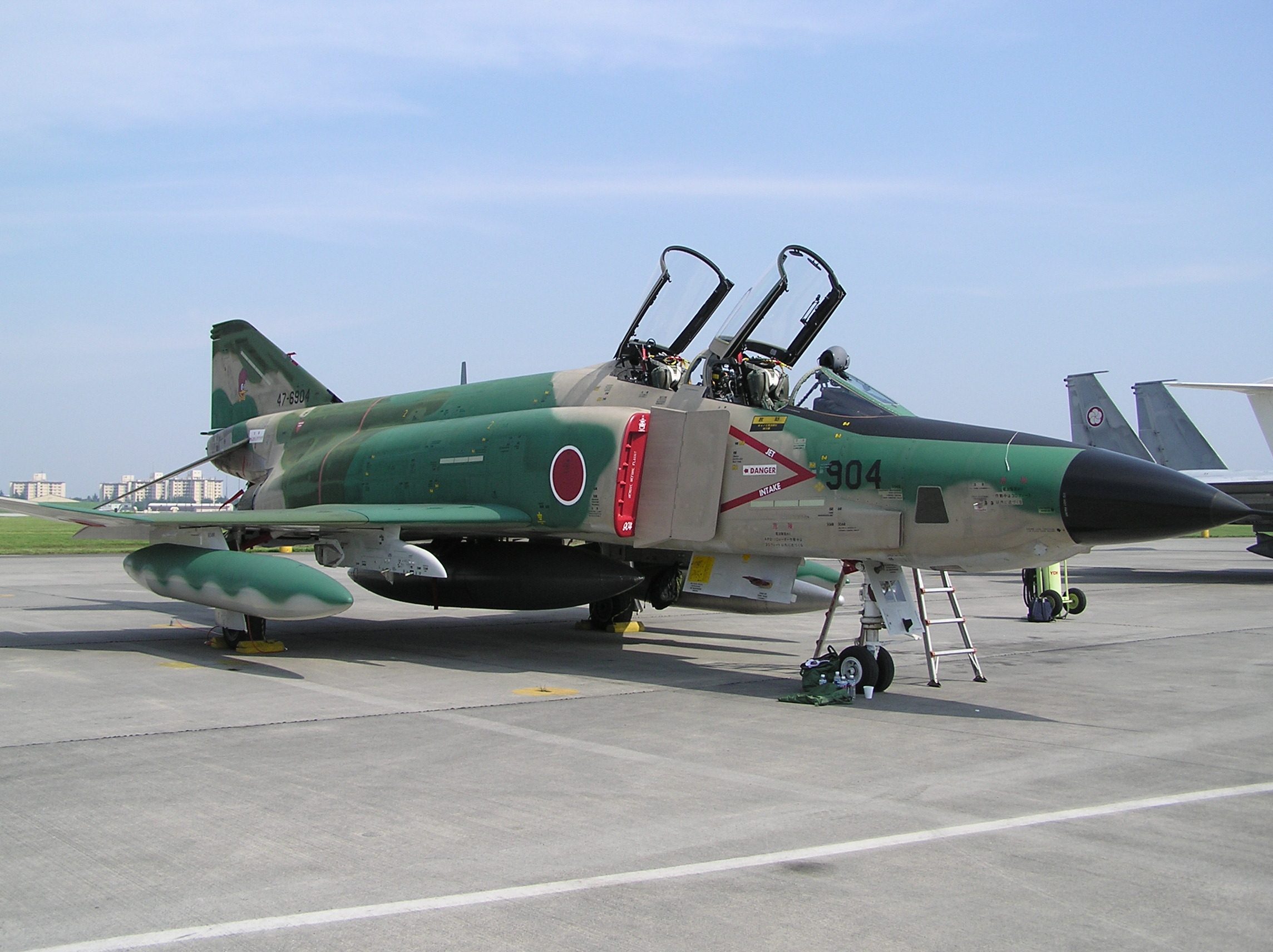 F-4 Phantom (JASDF RF-4E)